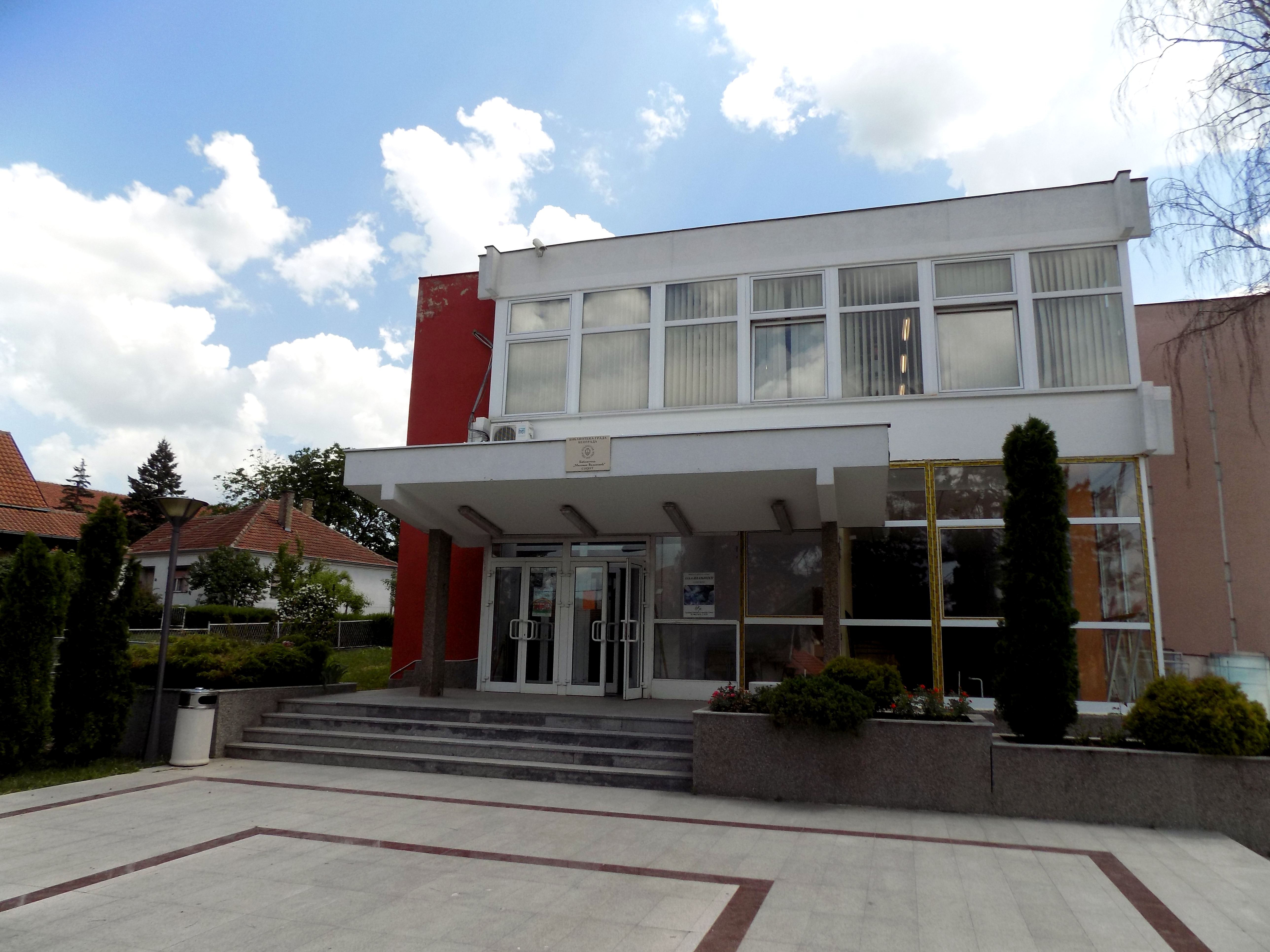 The library "Milovan Vidaković" is located in the building of the Cultural Center in Sopot, a municipality of the city of Belgrade (Serbia)